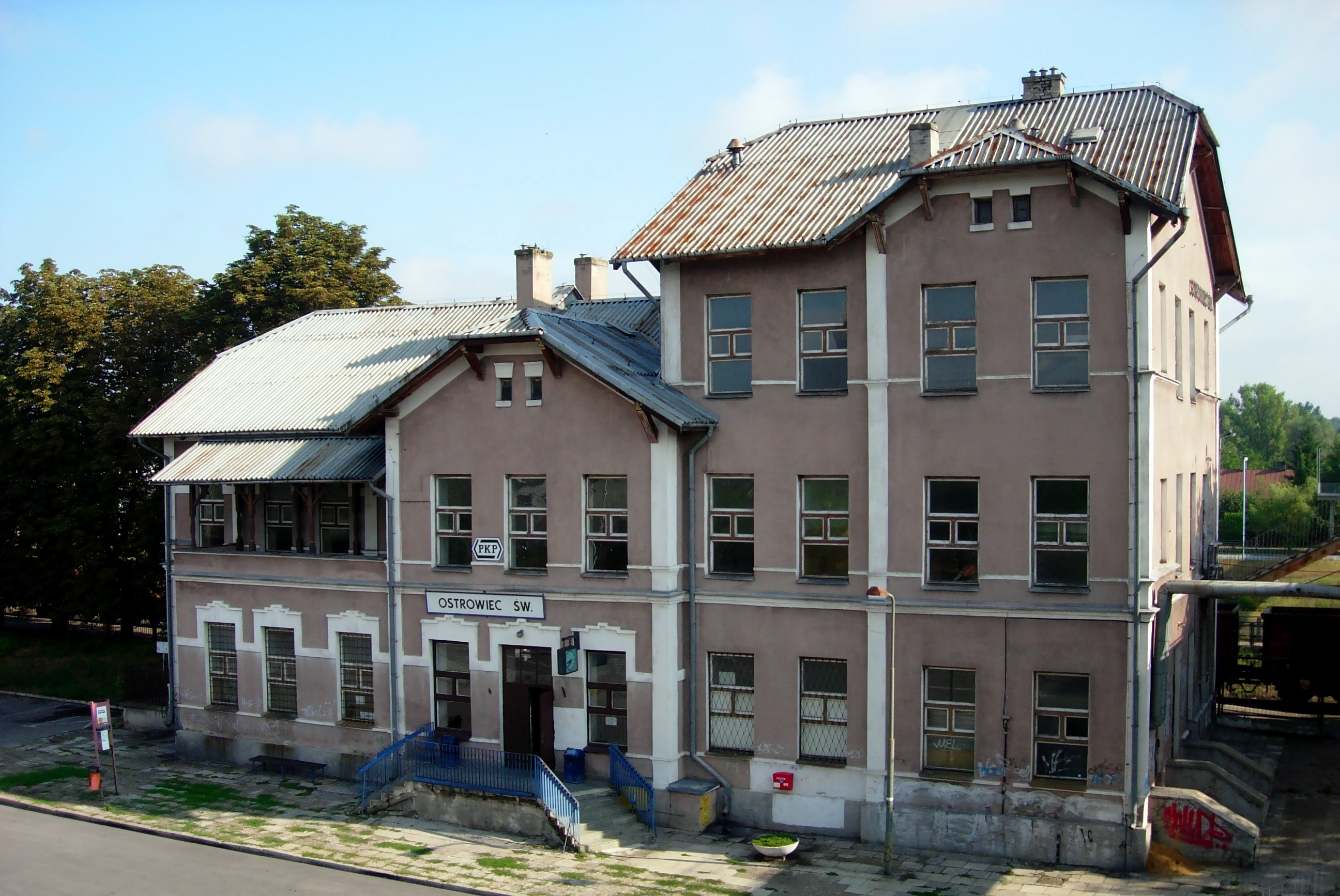 Railway station in Ostrowiec Świętokrzyski